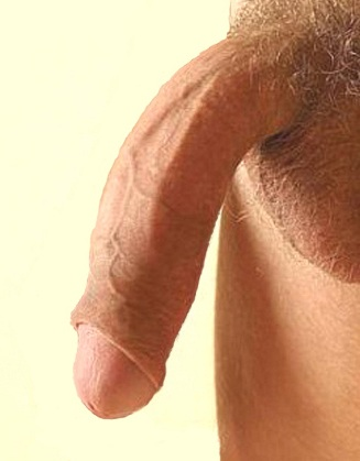 low & loose